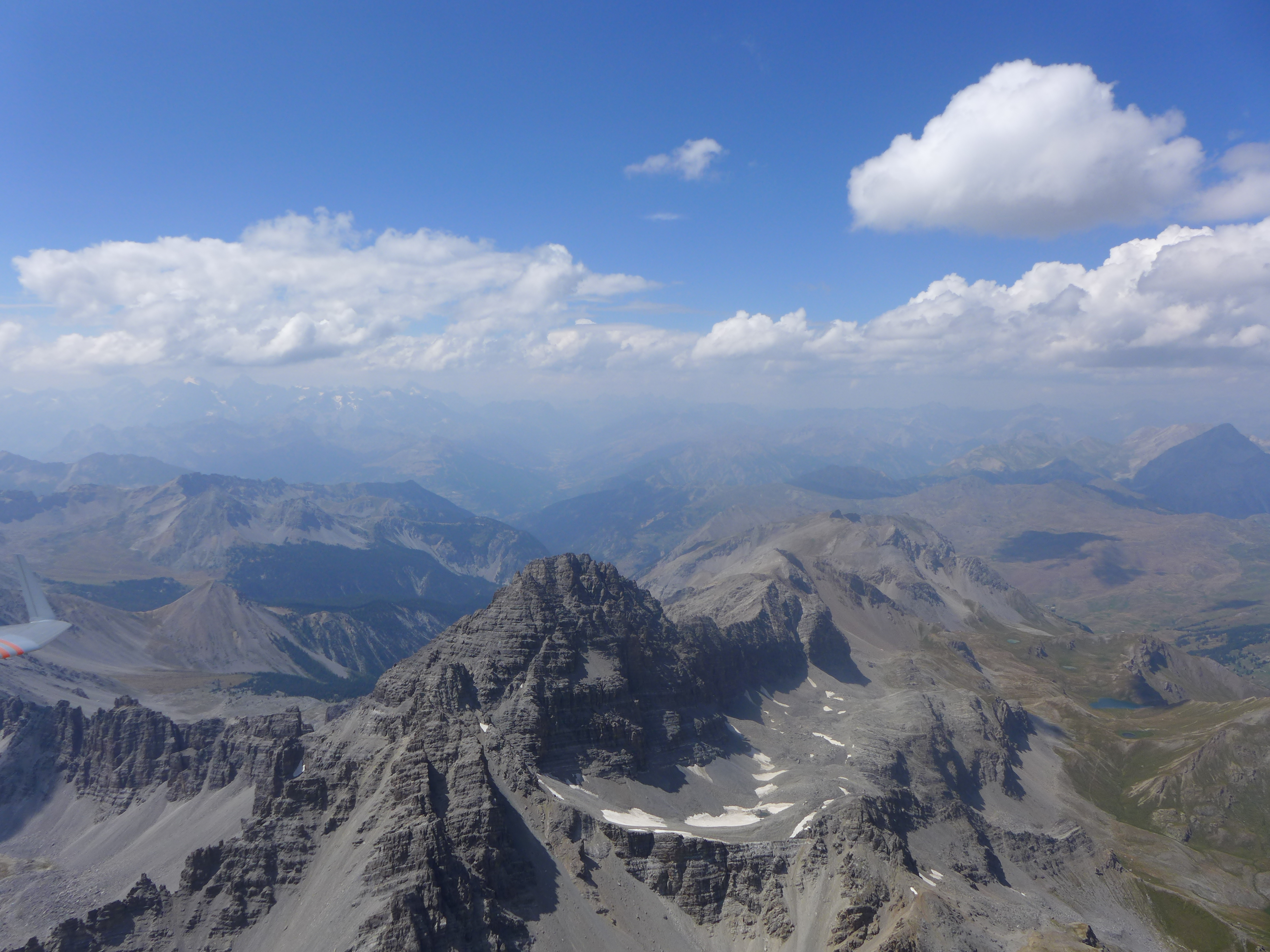 Aerial photo of the Pic de Rochebrune looking noth, taken from an altitude of 3500 metres